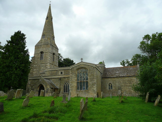 All Saints' parish church, Winwick, Cambridgeshire (formerly Huntingdonshire), seen from the south